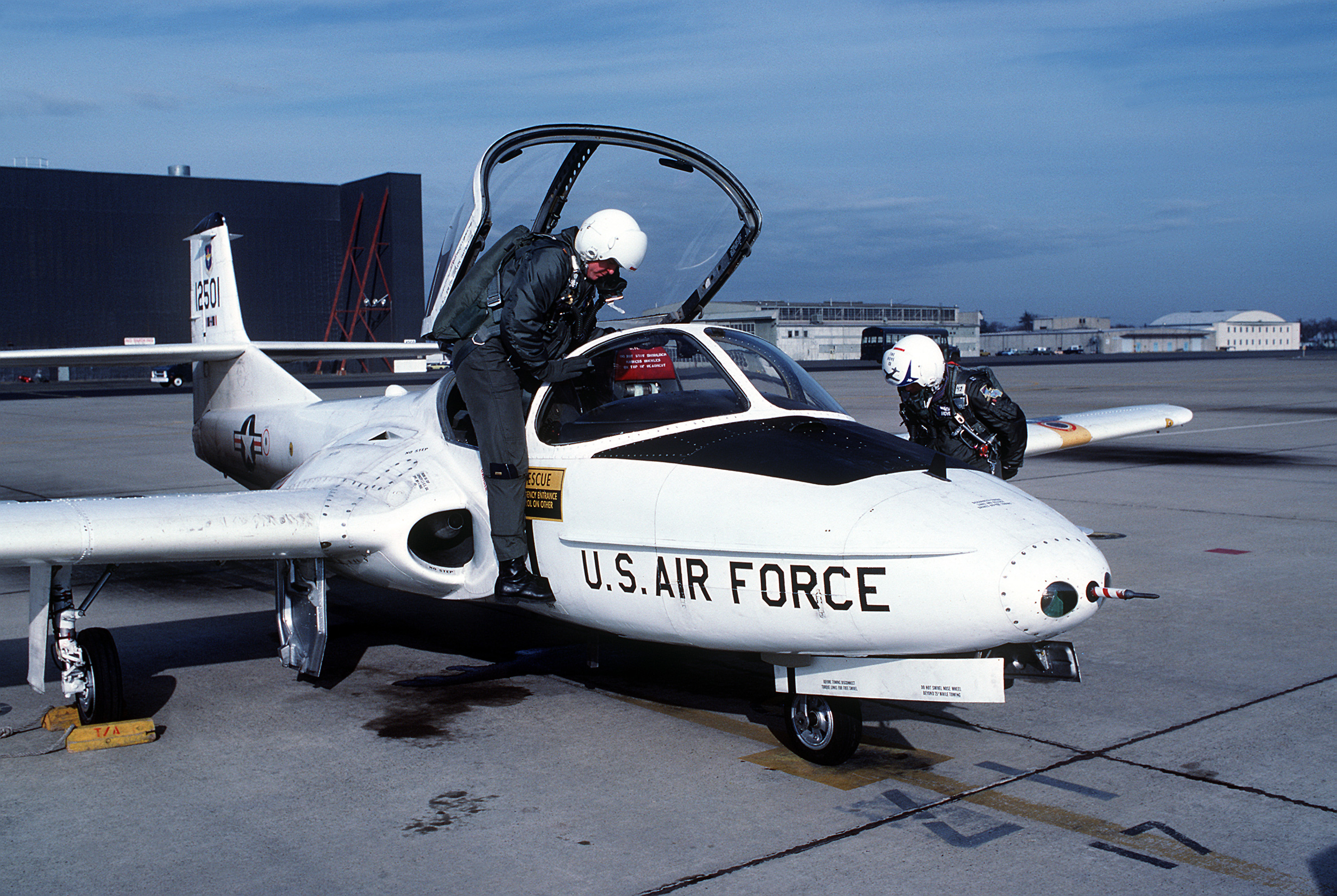 A student and instructor at the Air Training Command undergraduate navigator school climb into the cockpit of a T-37 training aircraft prior to making a flight.